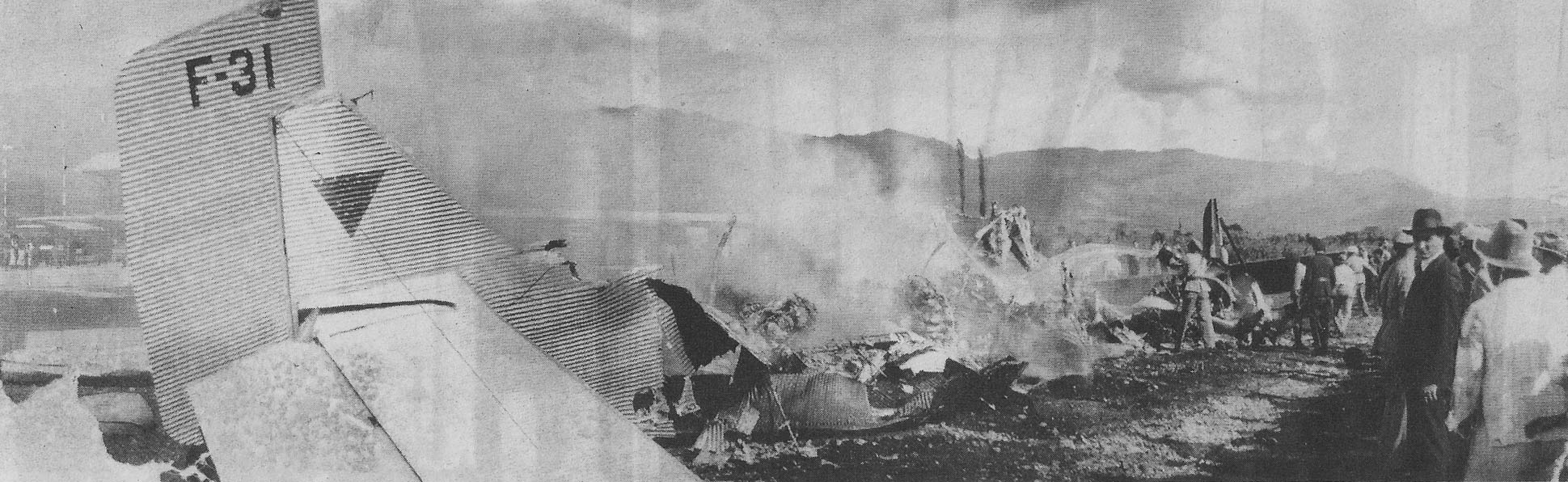 The two planes after they crashed on the rainway of Medellín airport, Colombia. Argentine singer Carlos Gardel was killed in that accident.